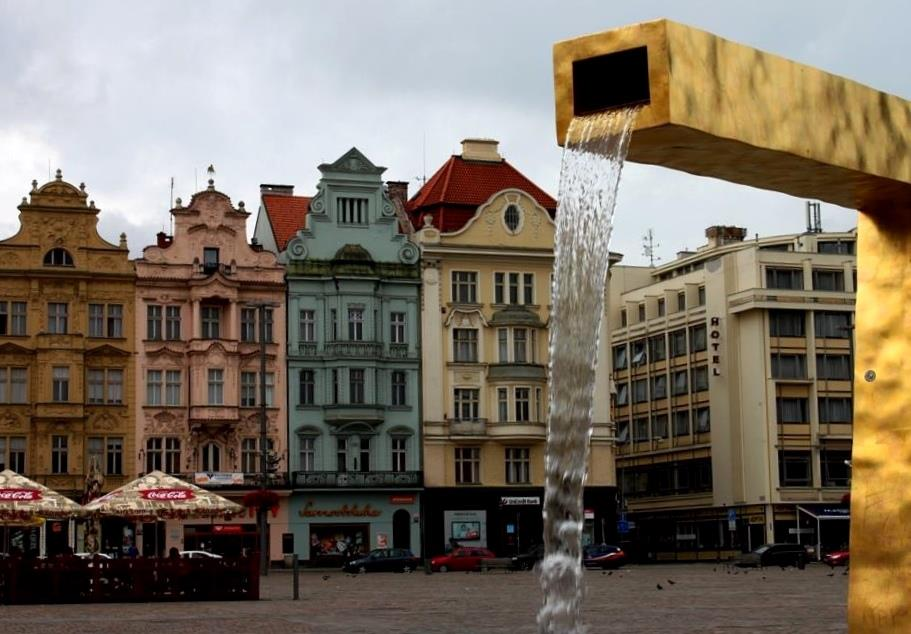 Fountain in the Main Square of Plzen